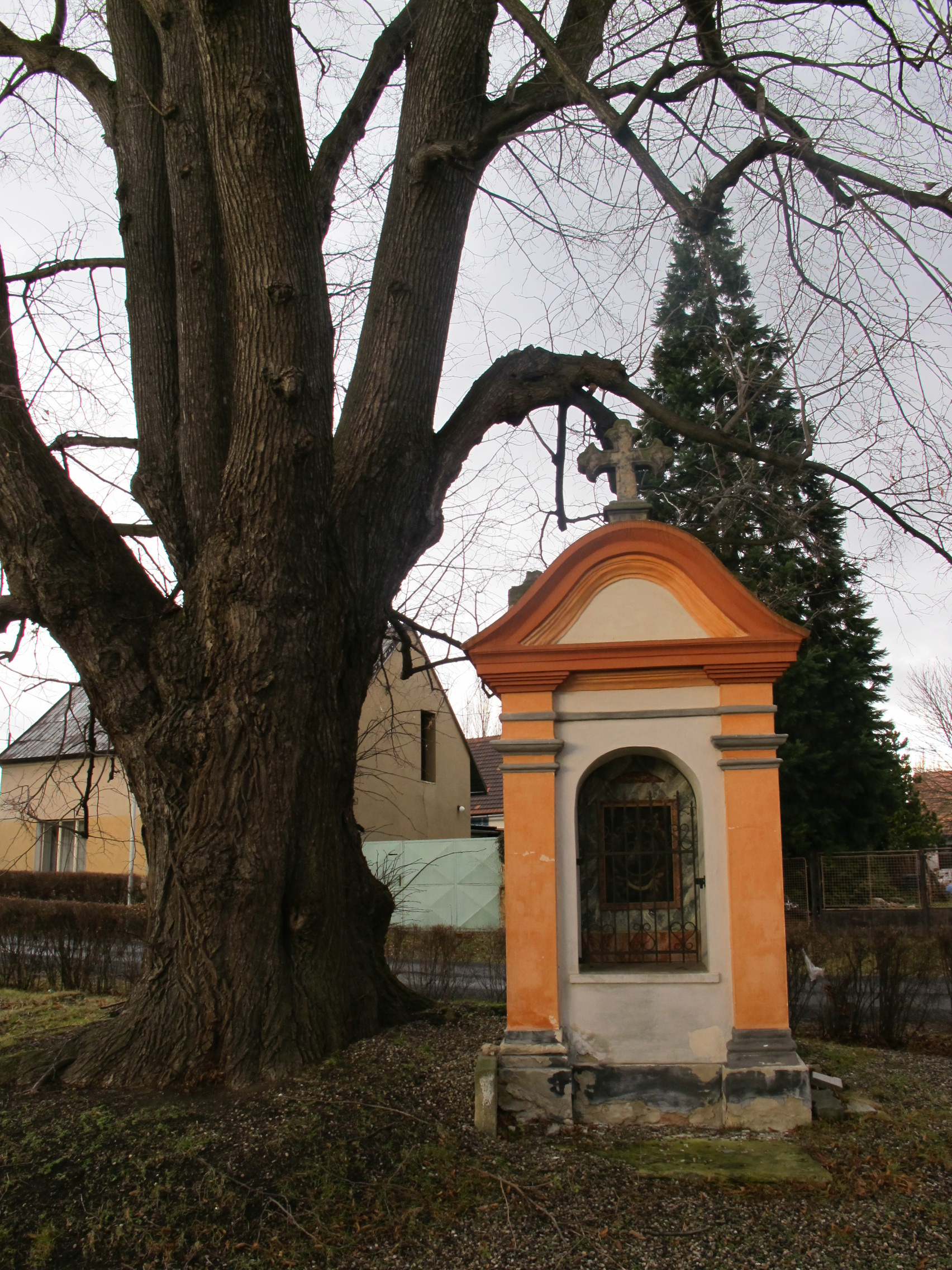 Saint Adalbert of Prague chapel in Ročov